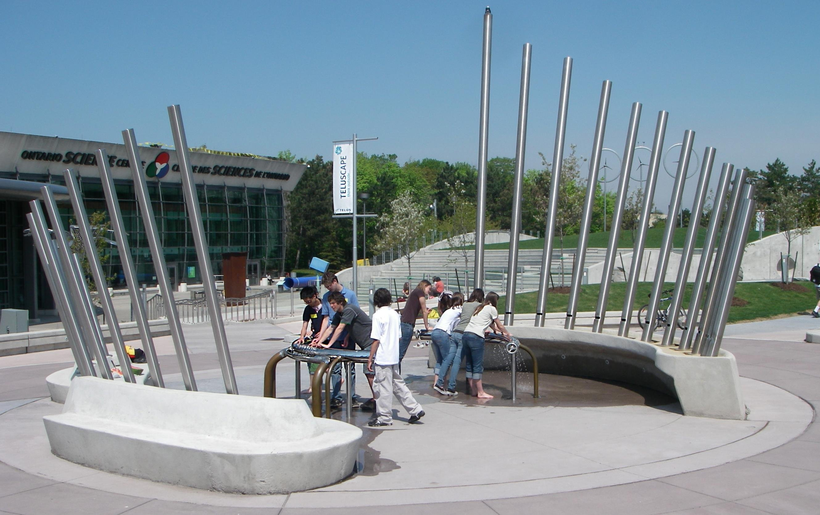 Picture of outdoor public art sculpture, Ontario, Canada.